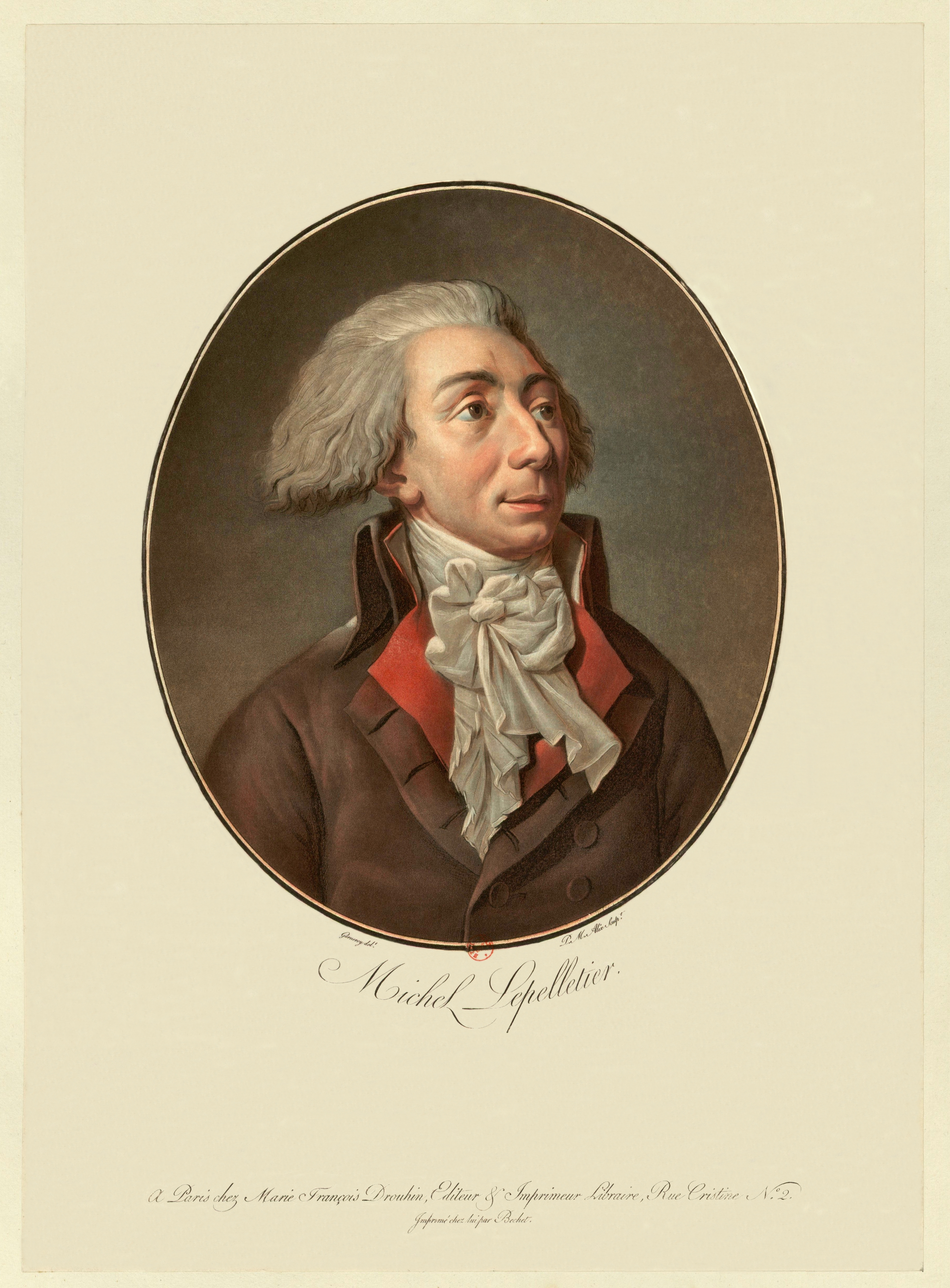 Louis-Michel le Peletier, marquis de Saint-Fargeau (1760-1793), deputy at the "Convention Nationale", he voted in favor of the death of the king Louis XVI (361 pro, 360 contra). On 20 January 1793, the eve of the king's execution, Le Peletier was assassinated. He was therefore considered martyr, and became iconic for the Revolution.